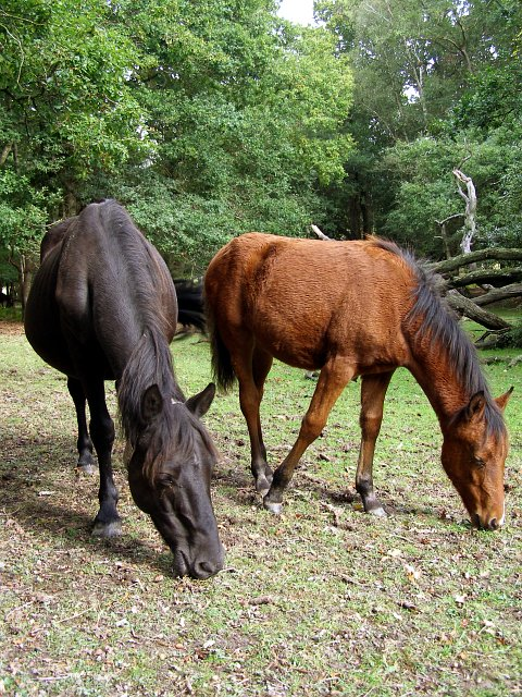 Ponies eating acorns on Parkhill Lawn, New Forest The dry weather during the summer has produced a 'bumper crop' of acorns, and now they are falling to the ground during the first windy days of autumn the ponies eagerly gobble them up. Commoners have been asked to release many more pigs onto the open Forest this autumn (a right of common known as 'pannage') so that the surplus of acorns can be consumed. If ponies gorge themselves on acorns they can die as a result. The younger pony on the right looks shaggy because it has been standing out in heavy showers of rain.